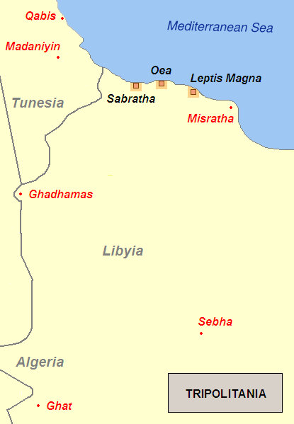 Map (rough) of ancient Tripolitania, own work composed from various mapreferences